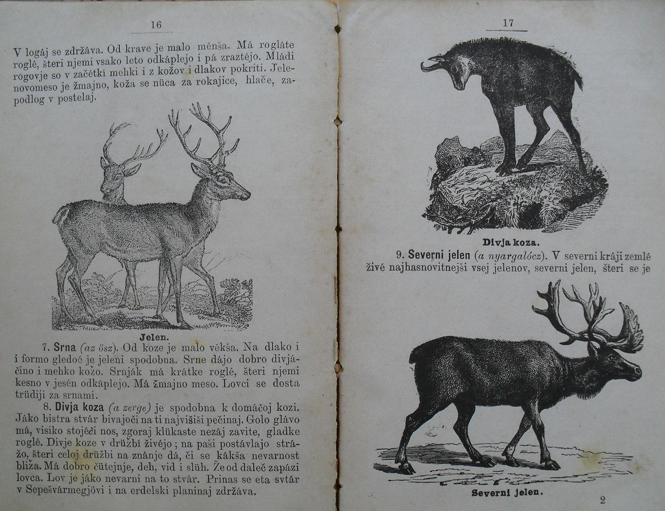 Preživari (Ruminents), in the Prirodopis s kepami of Imre Augustich (1878)